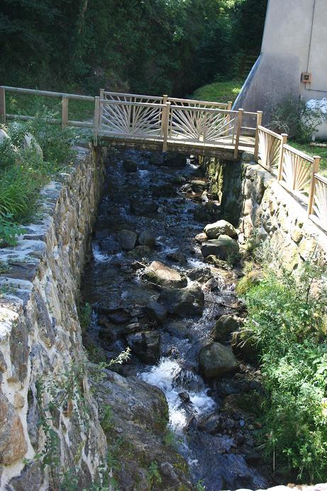 Gourbit river